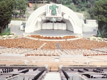 Hollywood Bowl